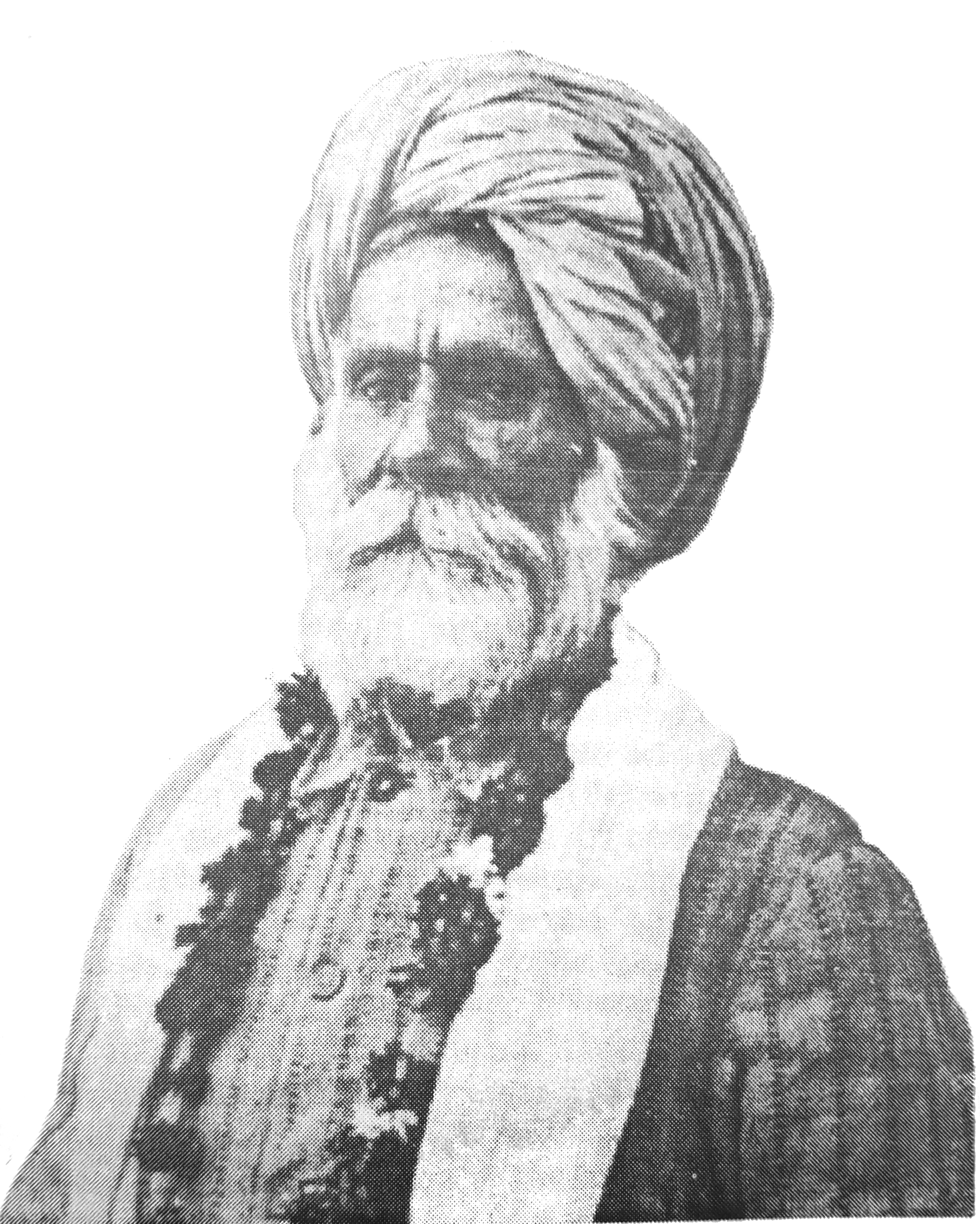 The only photograph of Indian botanist Jayakrishna Indraji